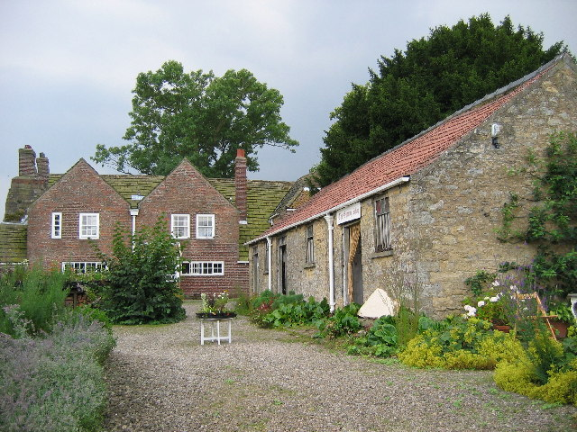 Shandy Hall, Coxwold, N Yorkshire. The home from 1760-67 of the witty parson, Laurence Sterne who wrote Tristram Shandy and A Sentimental Journey.